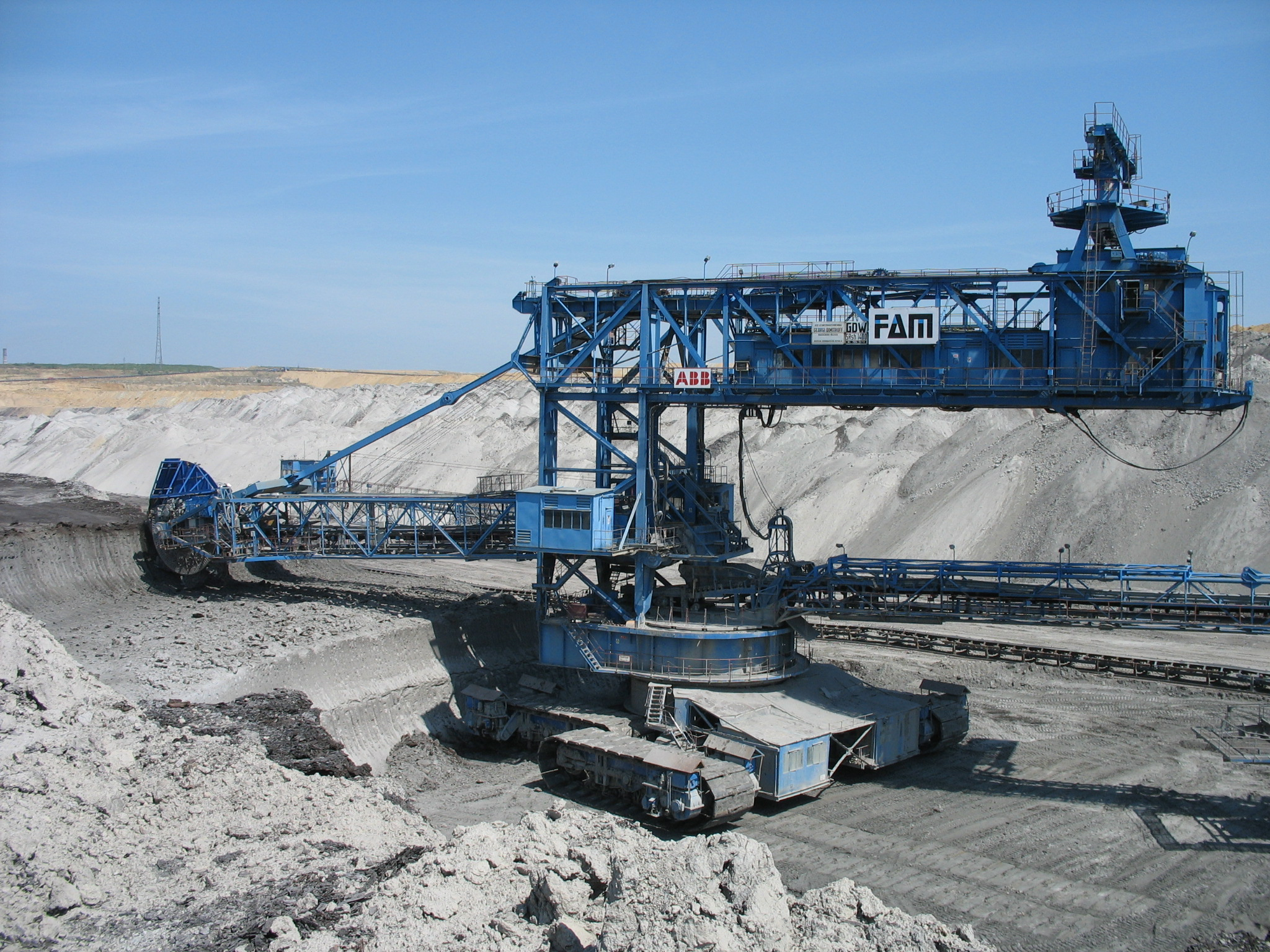 Lignite mine in Visonta, Hungary